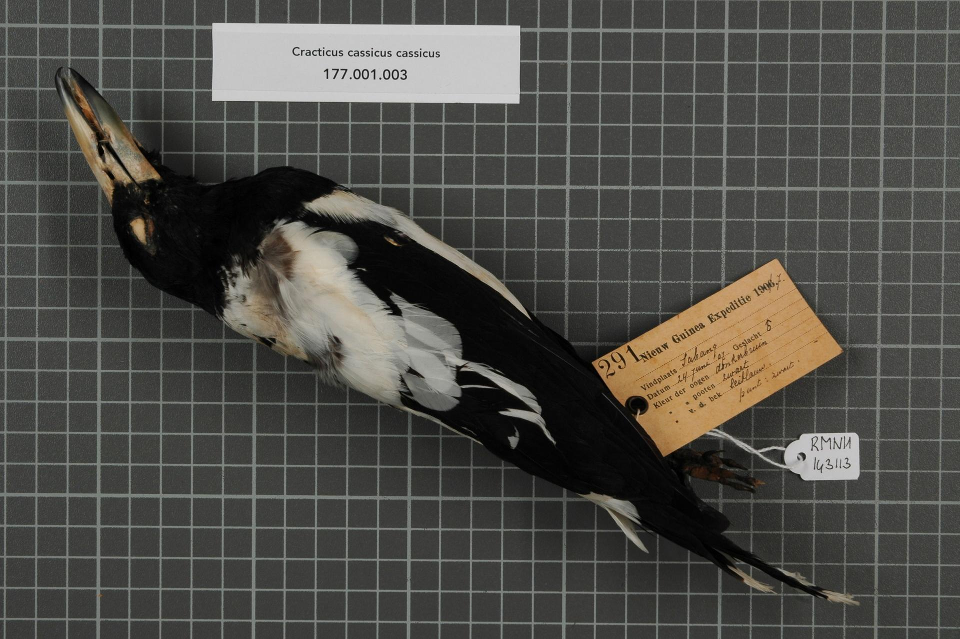 Cracticus cassicus cassicus (Boddaert, 1783)